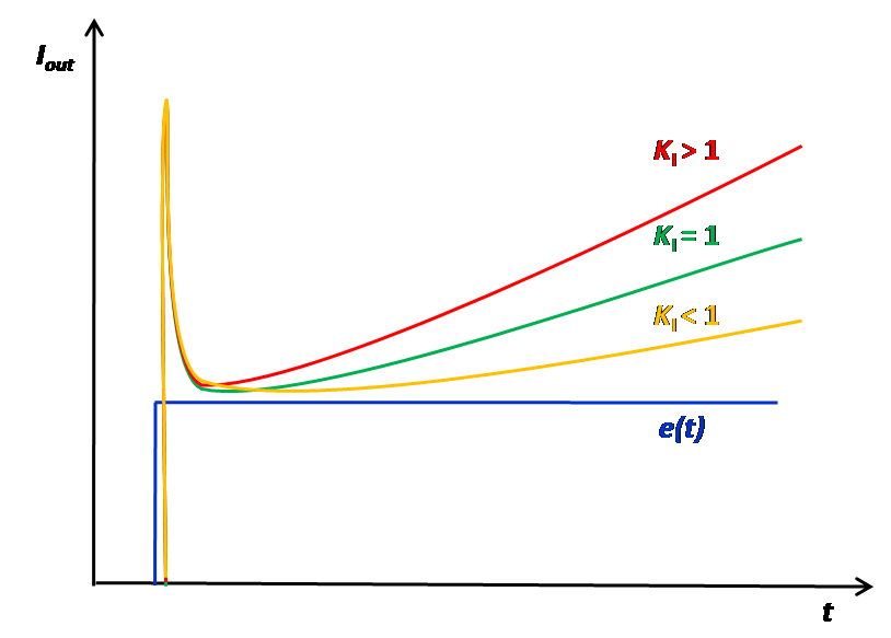 The integral response in a PID control, open loop. Proportional and Derivative actions are left constant.